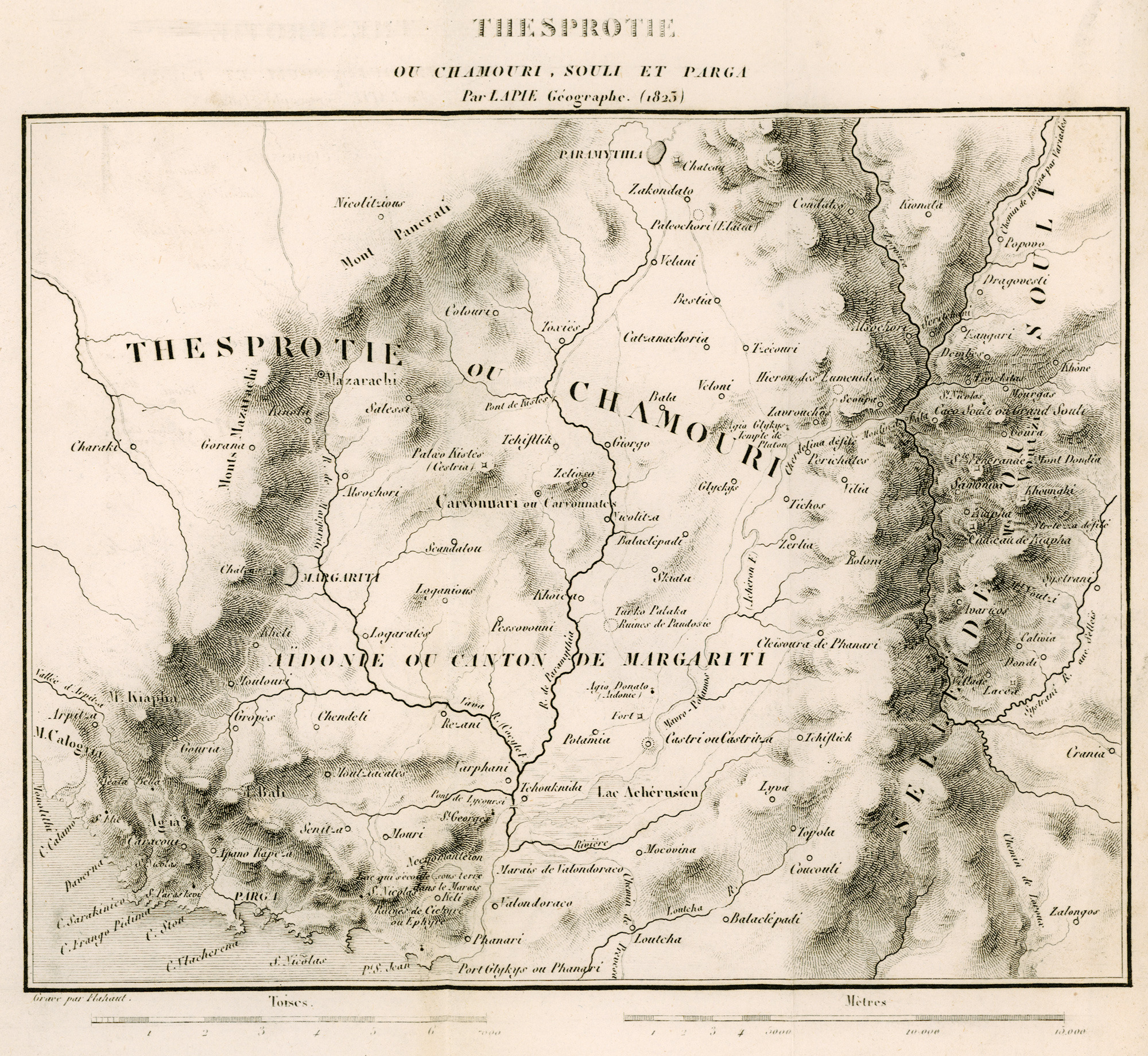 François-Charles-Hugues-Laurent Pouqueville. Grèce. Paris, Firmin Didot, MDCCCXXXV (1835)